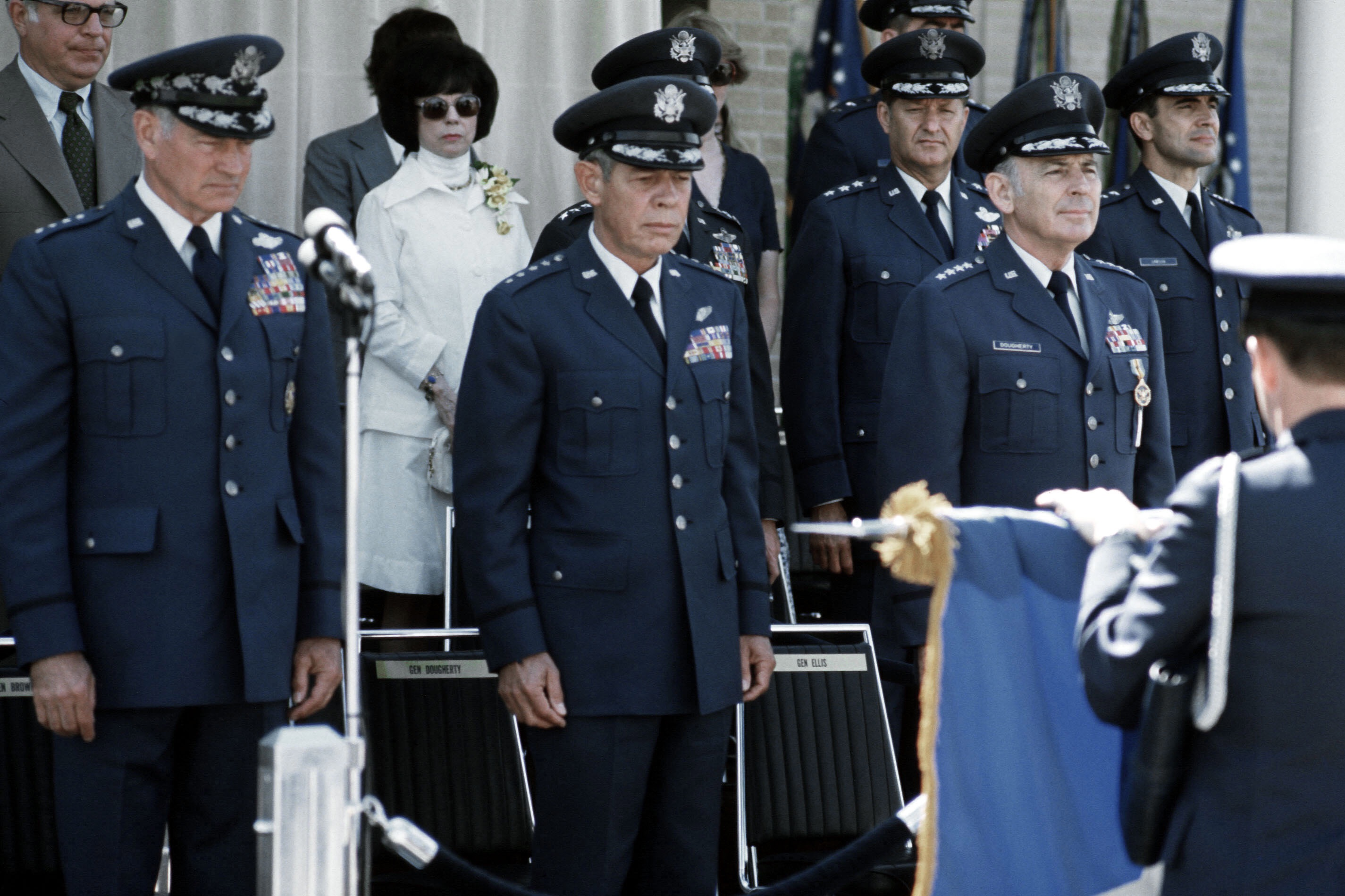 Chairman of the Joint Chiefs of Staff General George S. Brown during the Strategic Air Command Commander-in-Chief (CINCSAC) change of command ceremony with the upcoming CINCSAC General Richard H. Ellis and the outgoing CINCSAC General Russell E. Dougherty on January 8, 1977.